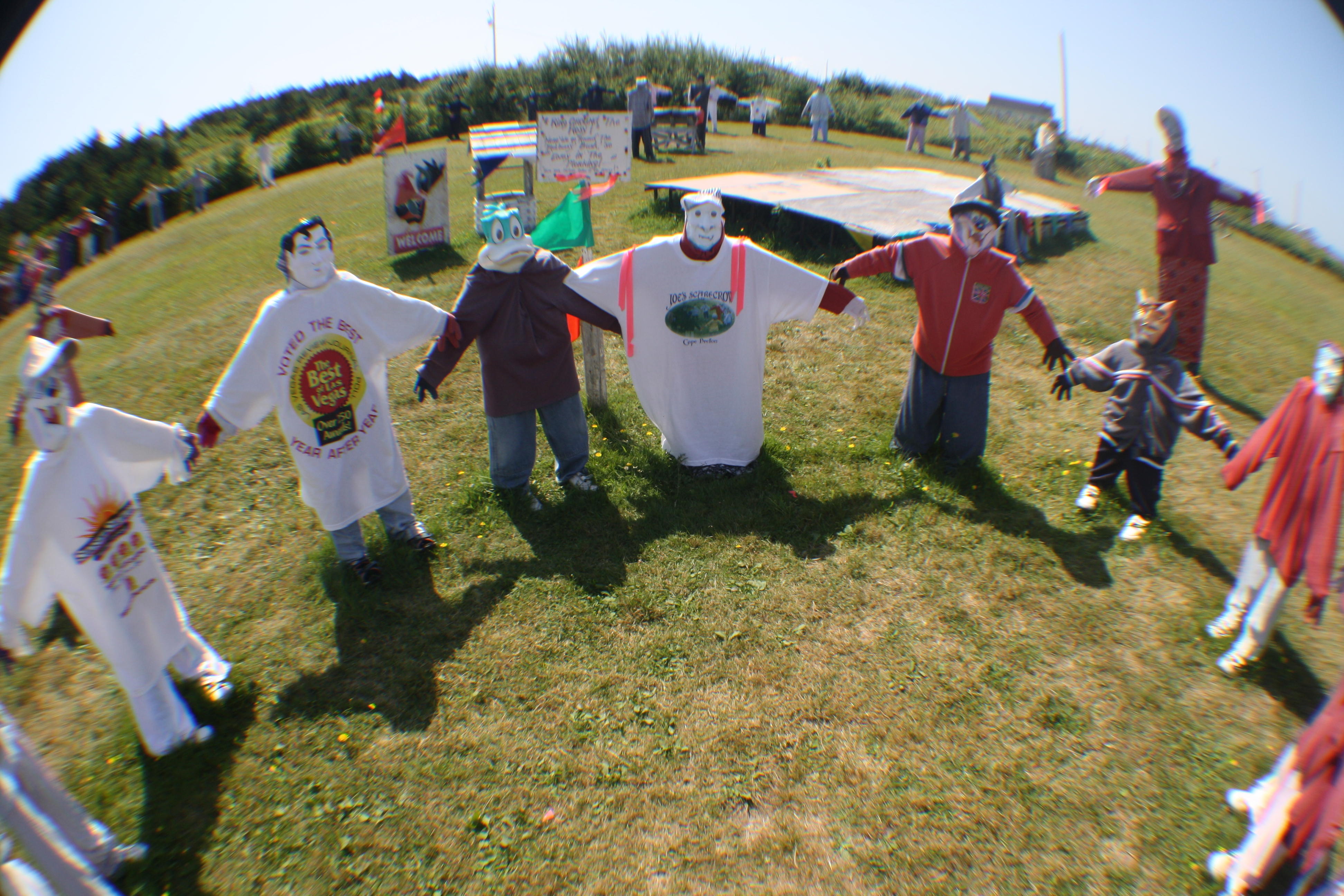 Scarecrow children in a circle at at Joe's Scarecrow Village near Cheticamp, Nova Scotia, Canada.